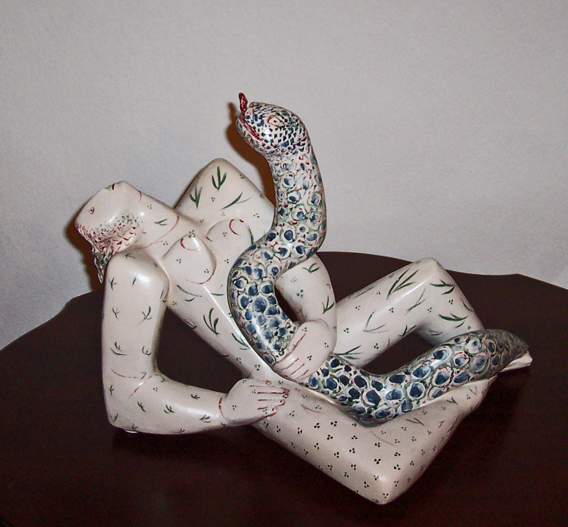 Woman with snake; majolica sculpture by Emilia Bayer